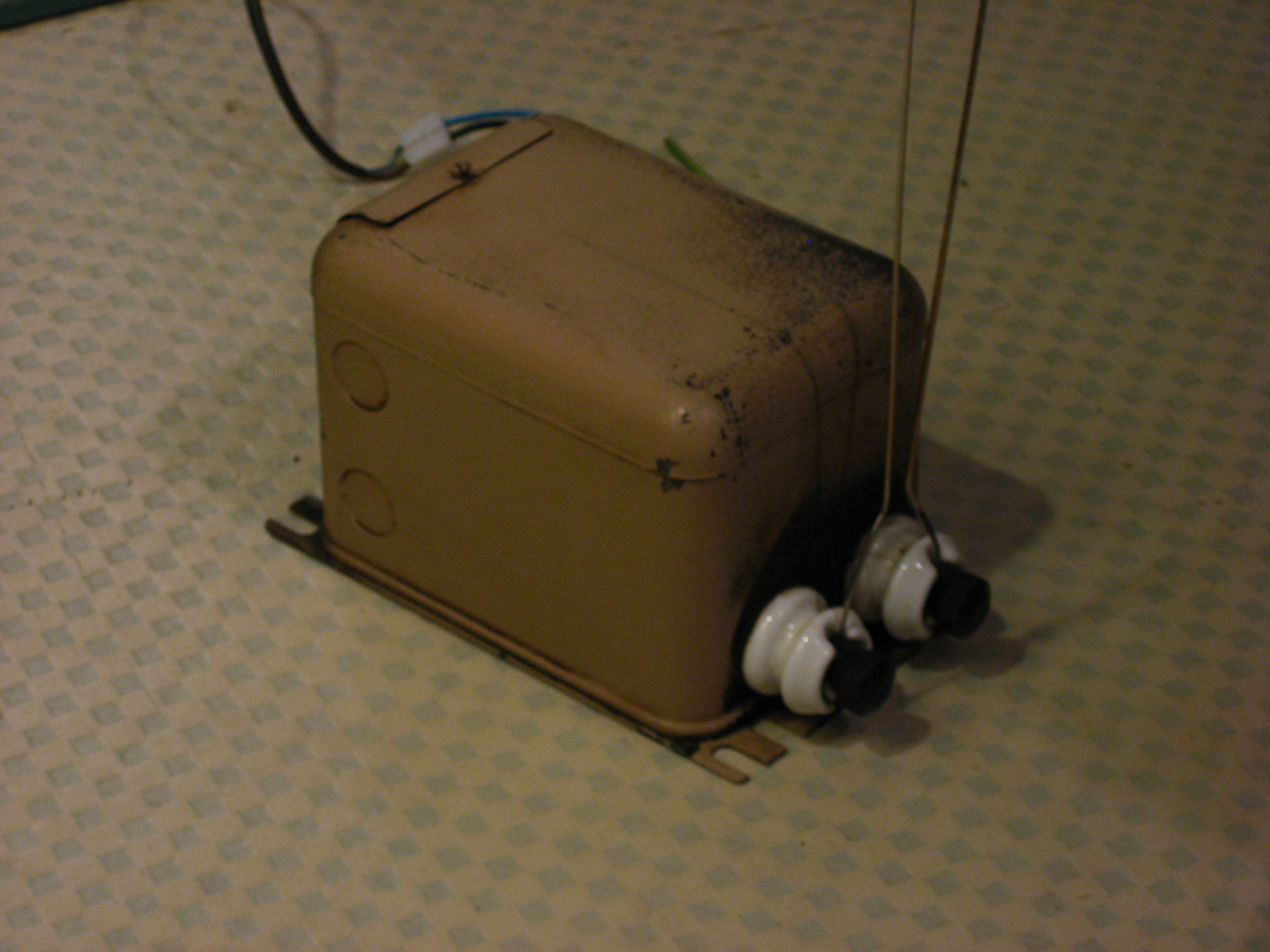 Oil burner's ignition transformer, output 2x6kV. Jacob's ladder installed to the output on the right.